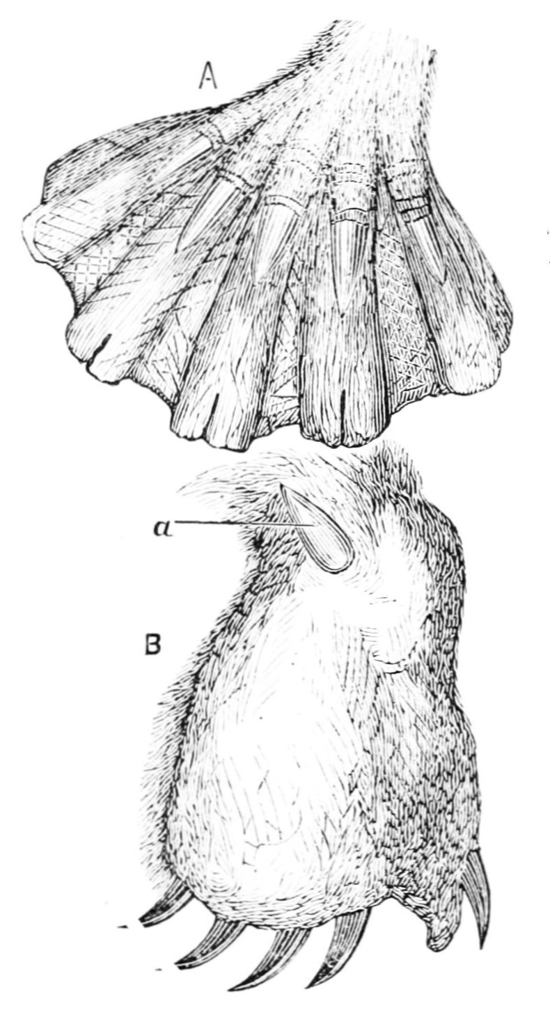 Fore and hind foot of the ornithorhynchus